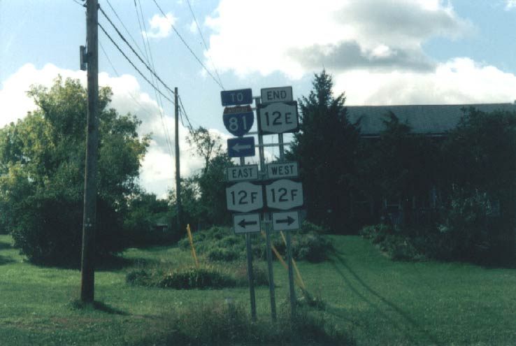 Sign depicting the end of NY 12E in Jefferson County.